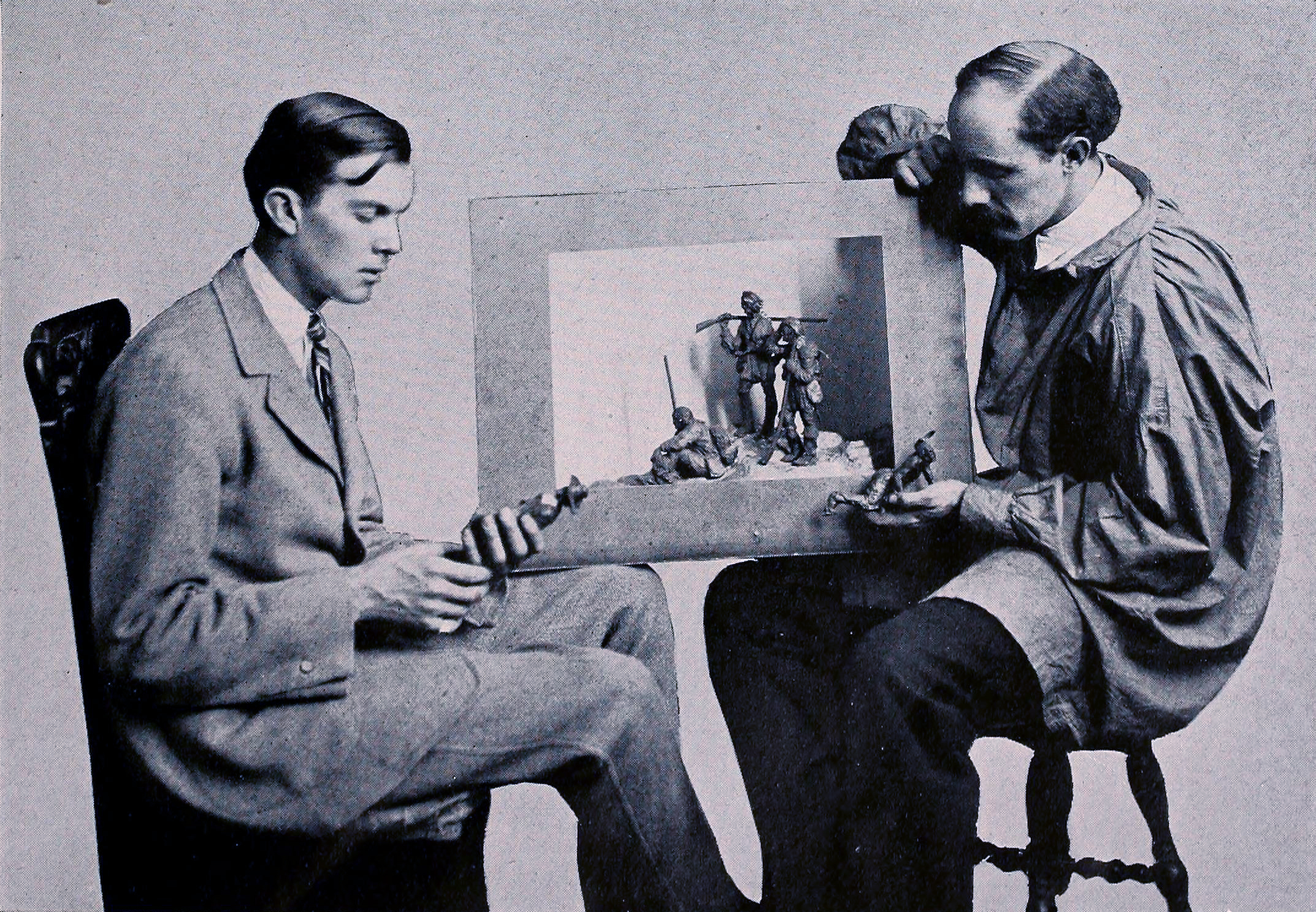 Actor Glenn Hunter and artist Dwight Franklin, on page 55 of the February 1923 Shadowland.